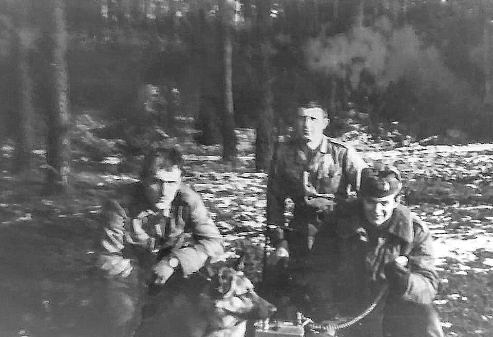 Border Protection Forces in Olszyna